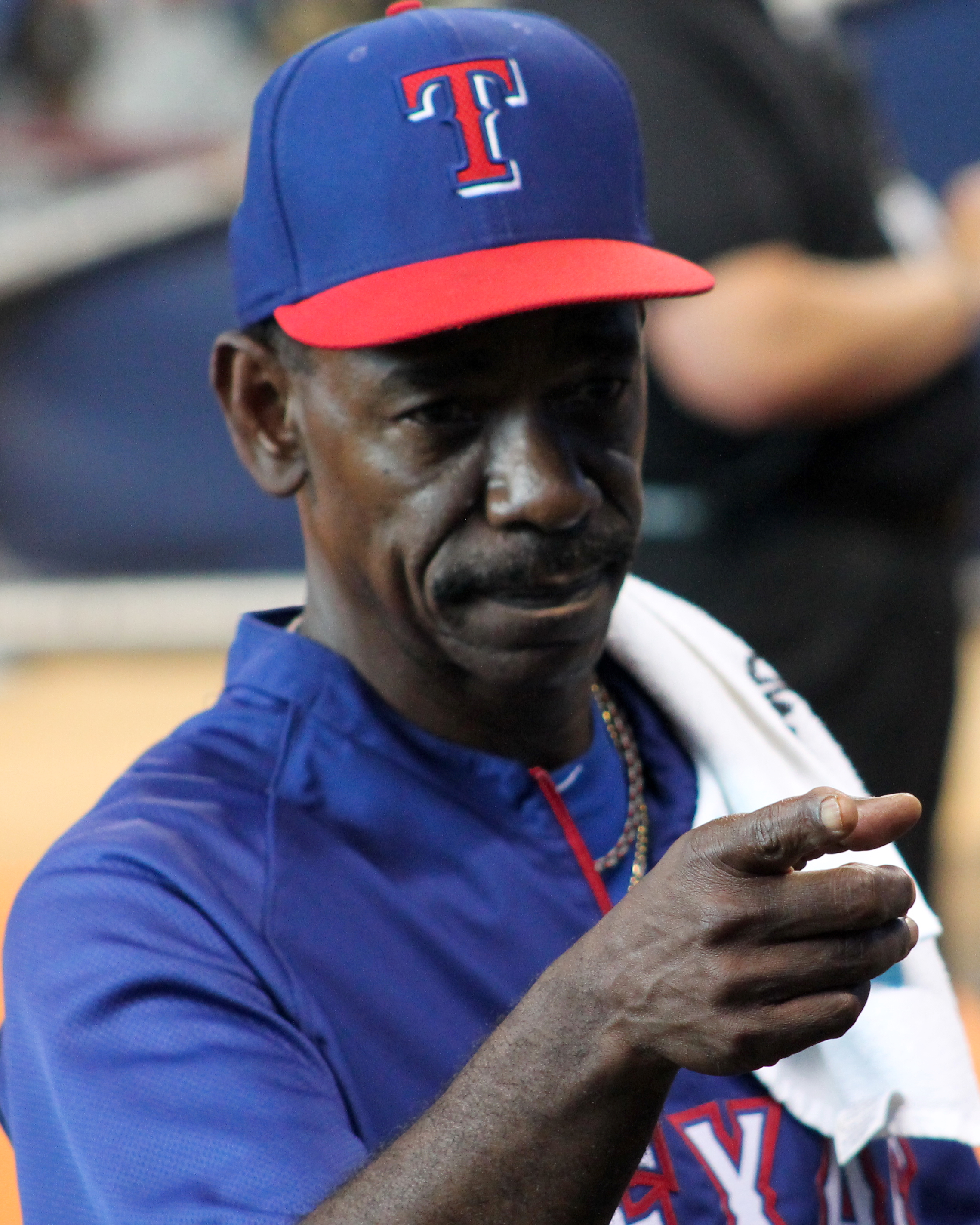 Professional baseball manager Ron Washington at Minute Maid Park in August 2014.